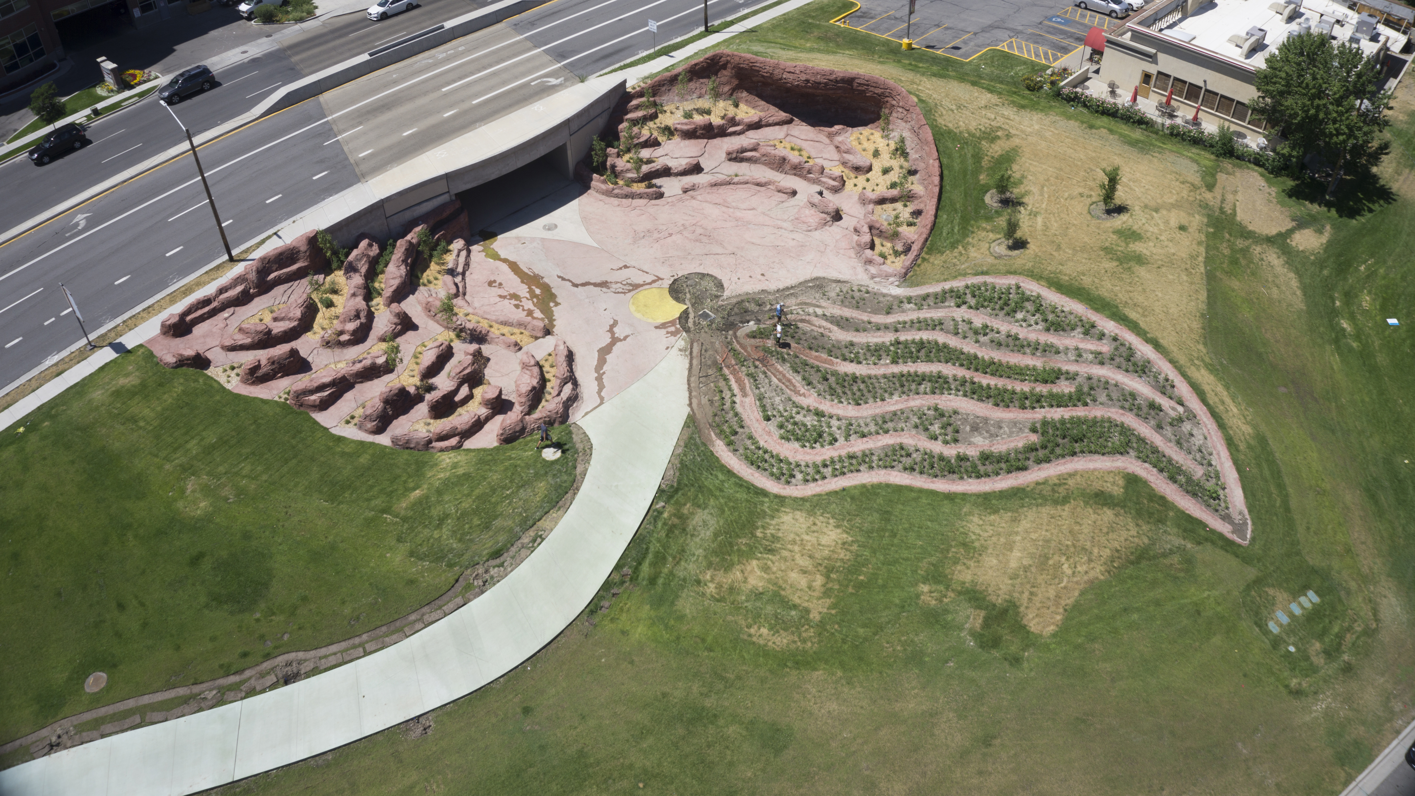 Aerial photo of the Sego Lily diversion dam at the Draw at Sugarhouse by Patricia Johnson, Salt Lake City, Utah. Photo by Adam Isaac Hiscock.